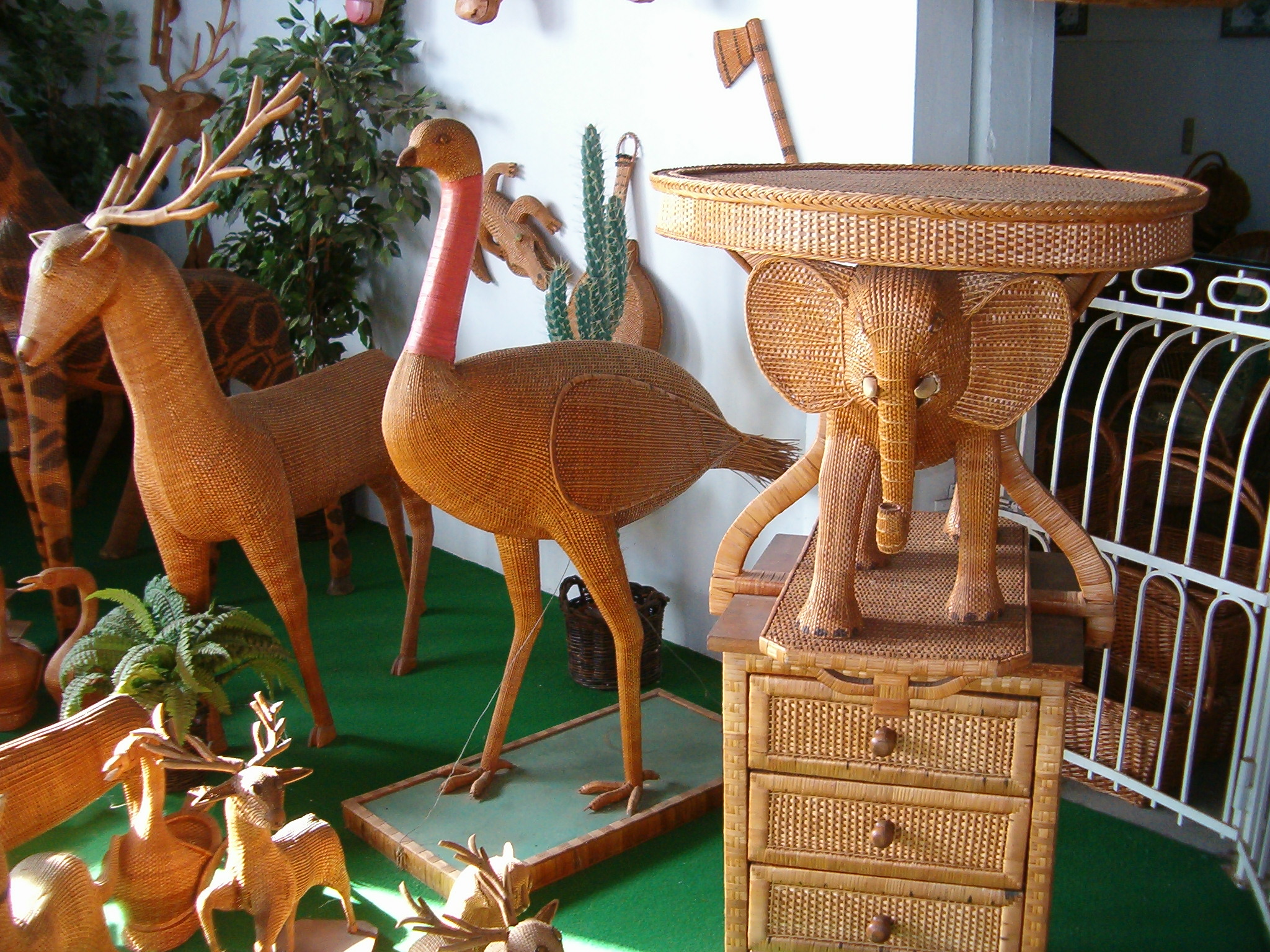 in Camacha, 2006